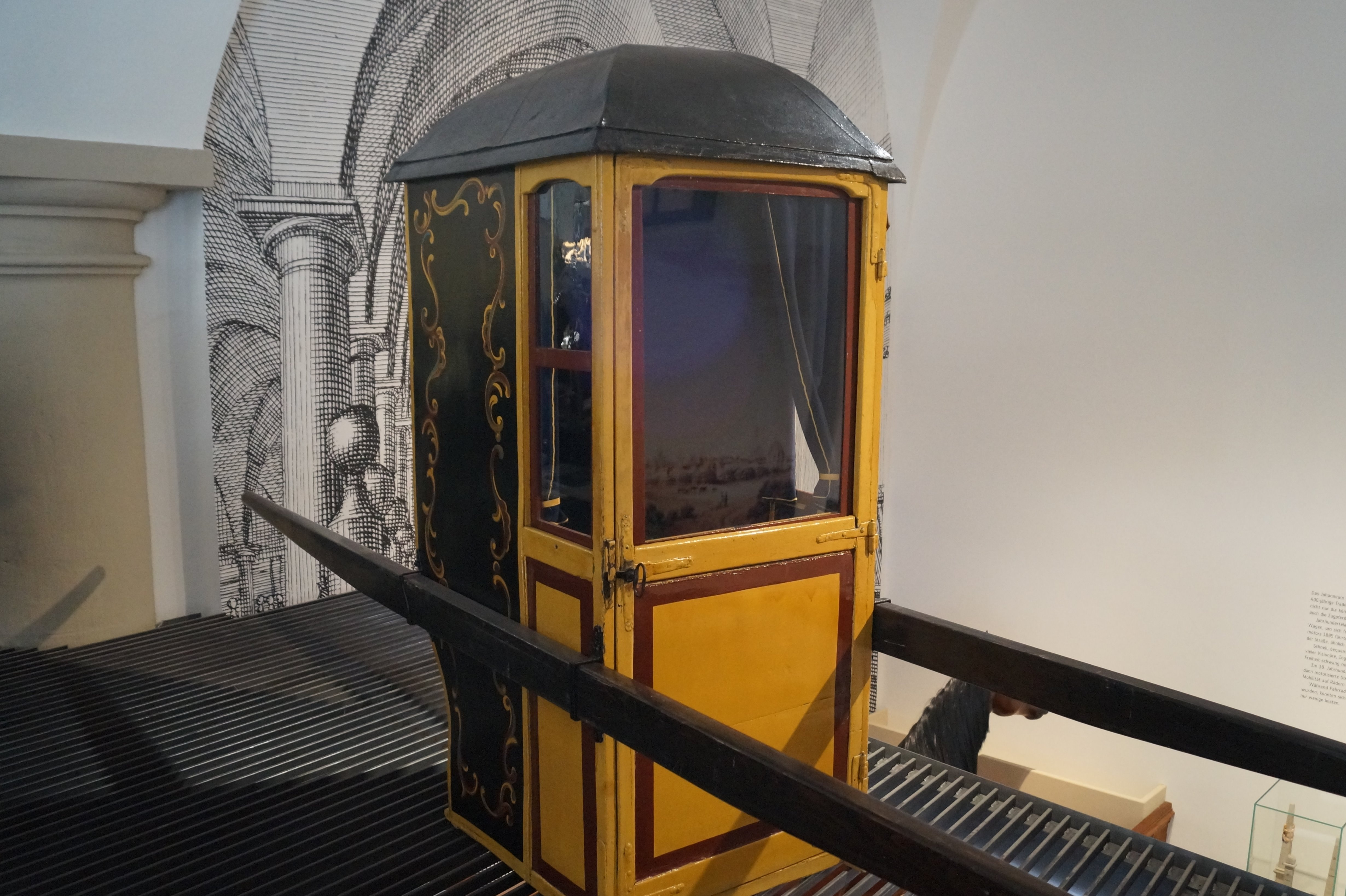 sedan chair, Transport Museum Dresden